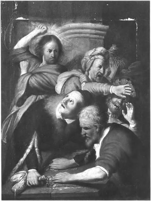 Christ driving the moneychangers from the Temple, Rembrandt van Rijn, 1624-1625, oil on oak panel, pre-1930 state